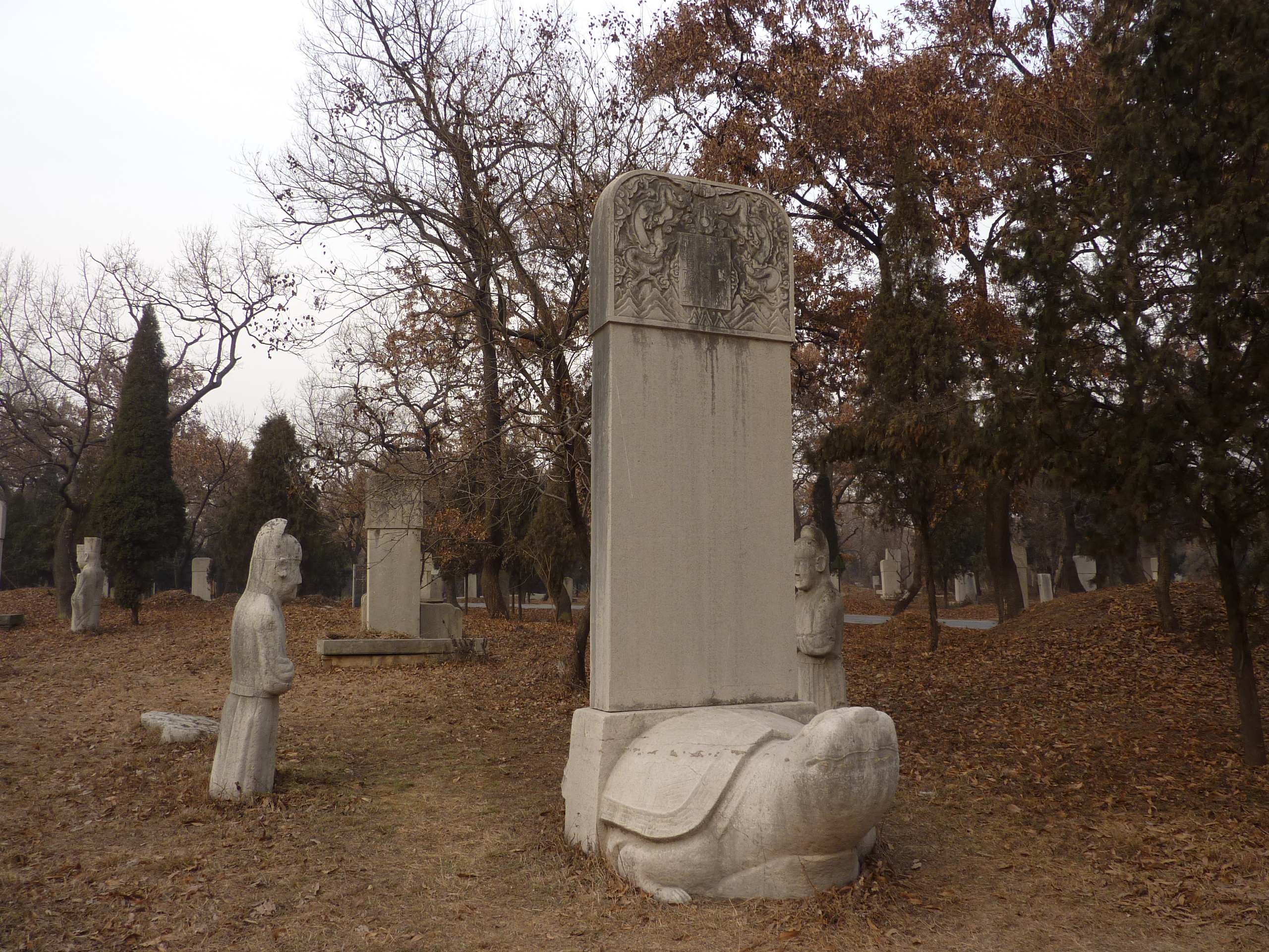 The area in the Ming (western) part of the Cemetery of Confucius where Dukes of Yansheng, who were the leaders of the Kong clan (55th through 64th generations in the direct line of descent from Confucius, according to an explanatory plaque) and the feudal rulers of Qufu, have been buried. Each of the dukes has his own "spirit road" (shendao), i.e. a a path lined with the statues of feline creatures (cat? lions? tigers?), rams, horses, warriors and officials, concluded with a stele-bearing bixi tortoise, and, finally, the actual tombstone. As elsewhere in China, the tombstones and the bixi normally face south, while the spirit way figures face each other, looking across the path that runs from the south to the north.